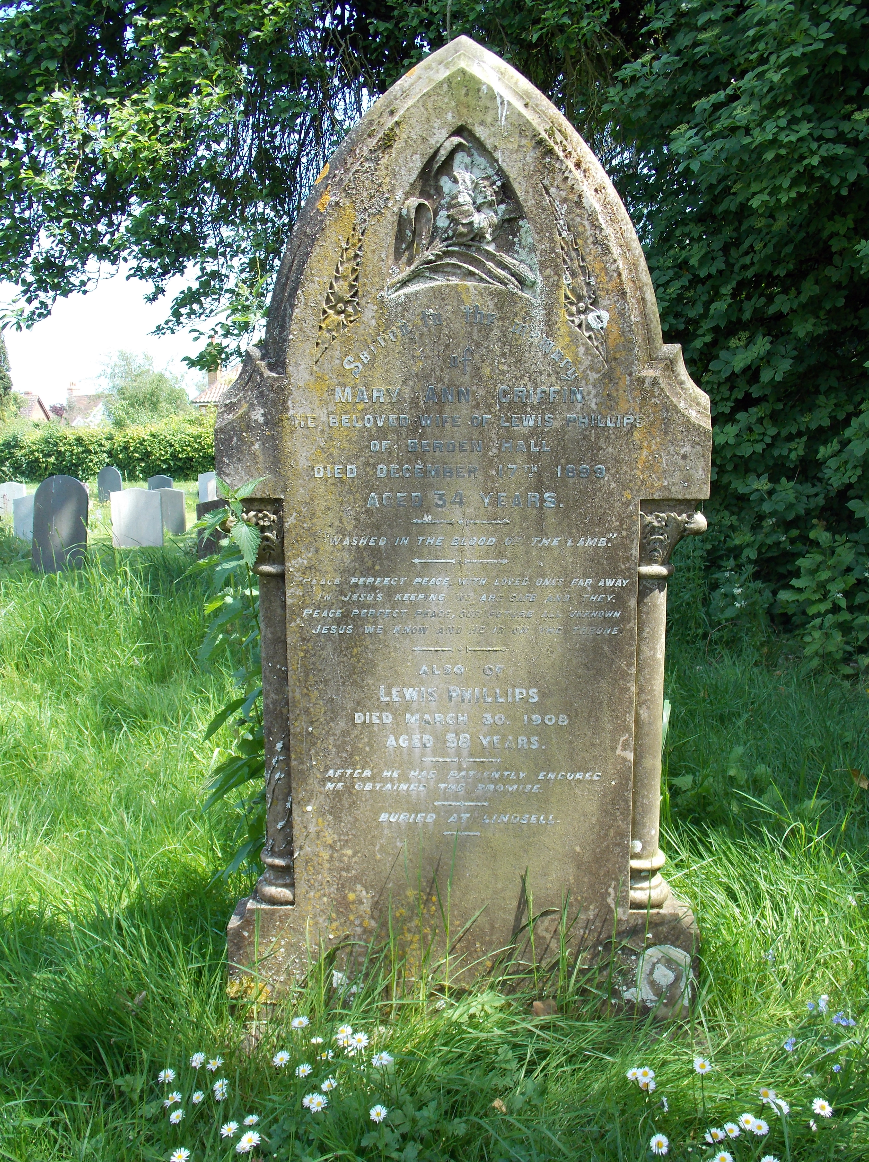 Berden St Nicholas churchyard Mary Ann Griffin of Berden Hall